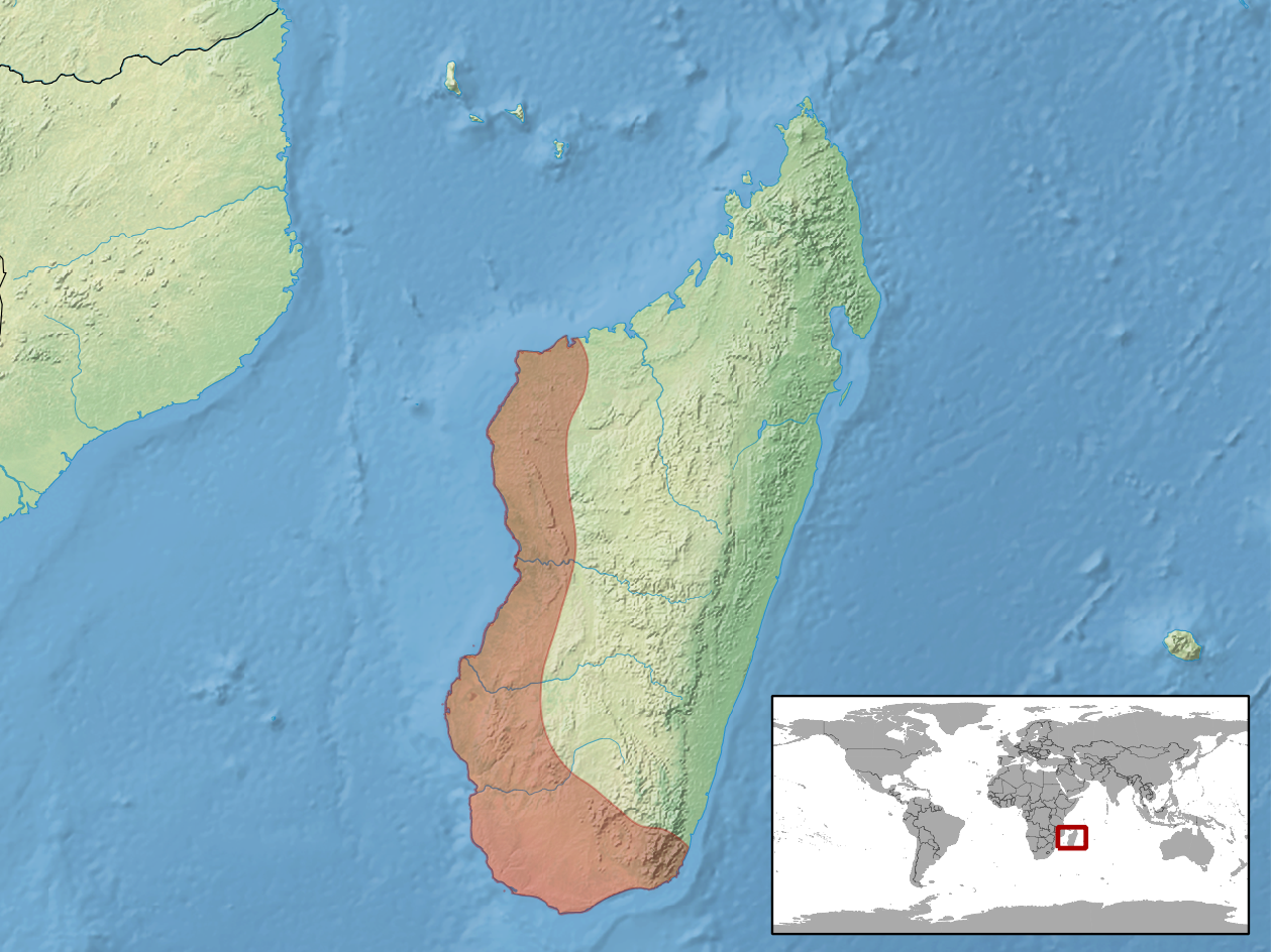 geographic distribution of Geckolepis typica syn. Geckolepis anomala (Native: Madagascar)